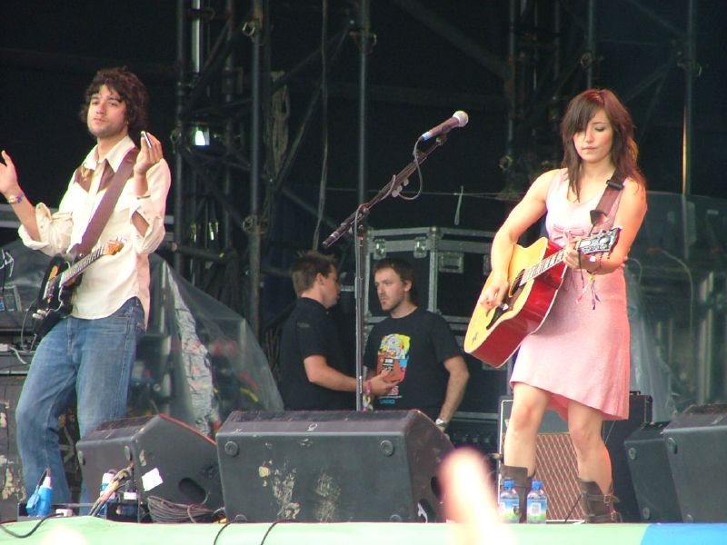 KT Tunstall performing at the 2005 Glastonbury Festival.